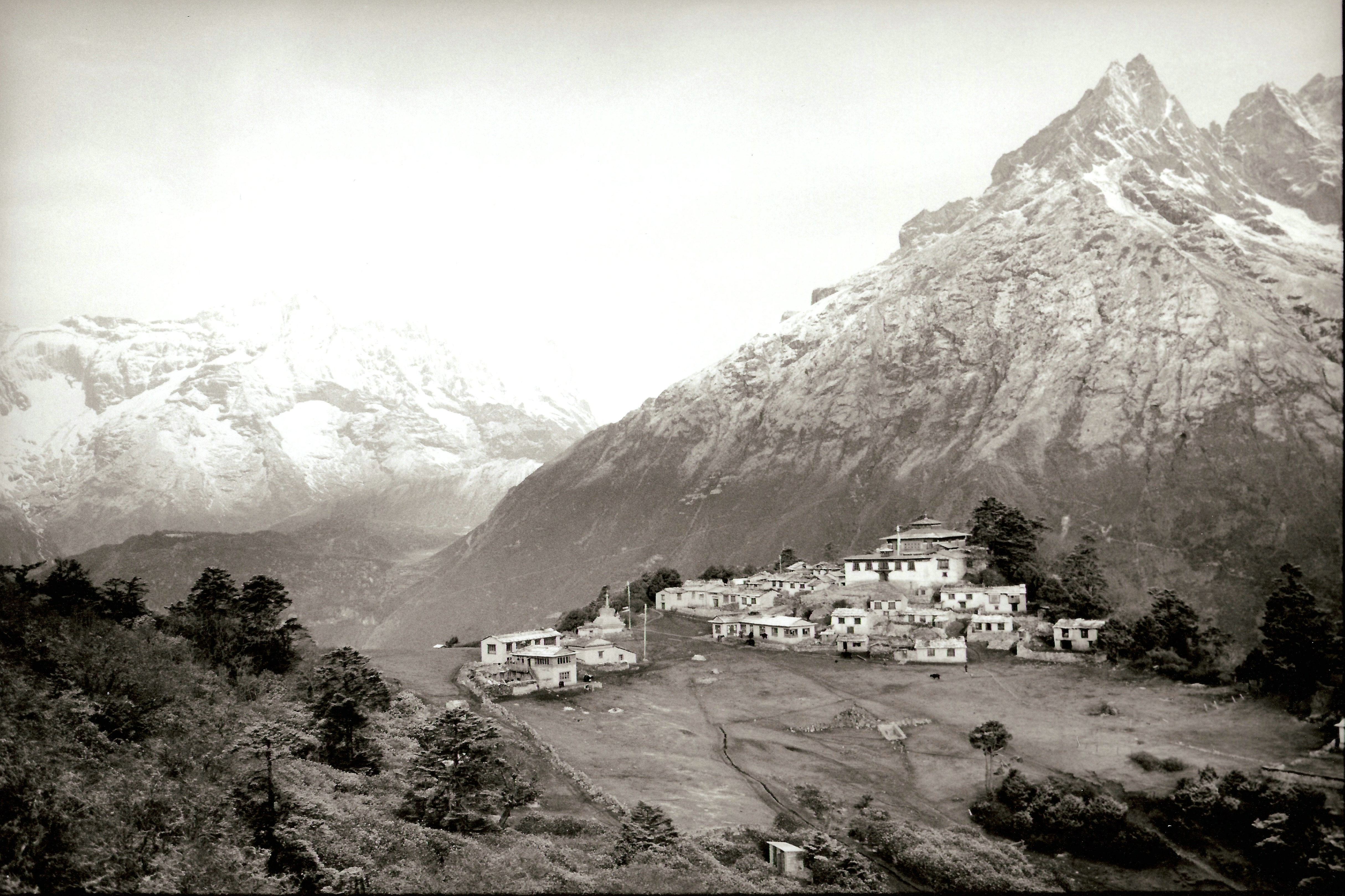 THYANGBOCHE MONASTERY, Solu Khumbu, Nepal, 1986. Thyangboche Monastery is the spiritual center of Tibetan Buddhism in Nepal. It is located in the Khumbu, beyond Namche Bazaar and Khumjung, on the ‘road’ to Kangtega, Ama Dablam, and Everest. In this photograph Khumbila, the sacred mountain of the Sherpas, rises high on the right, beyond the Dudh Kosi Gorge and its great milk river. The snowy north face of Kwangde lies beyond.